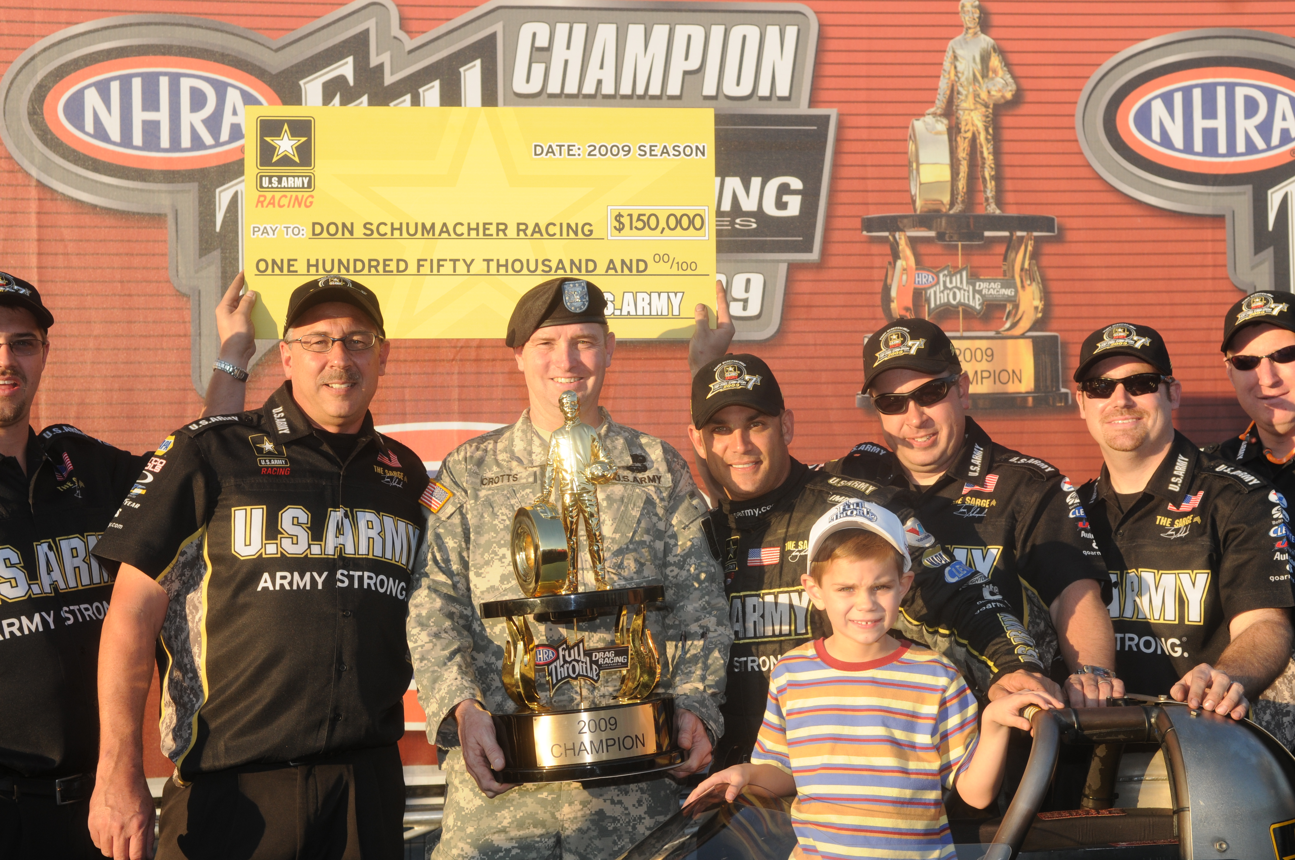 Col. Derik Crotts, the U.S. Army Accessions Command's deputy chief of staff, G-7, holds the 2009 NHRA championship trophy in Pomona, Calif. He is surrounded by Top Fuel champion driver Tony Schumacher to his right and other members of the Army's NHRA team.